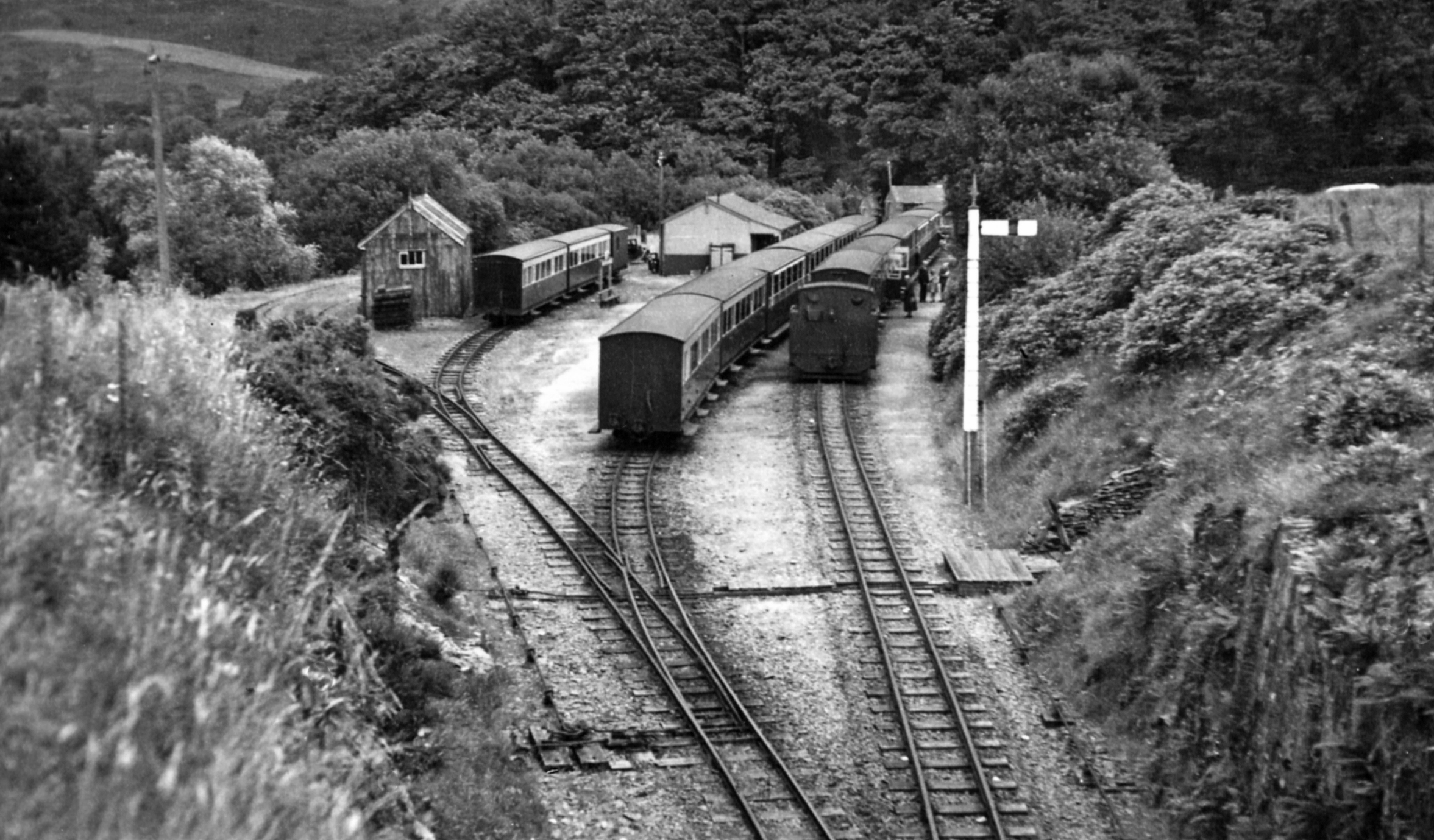 Devil's Bridge, terminus of Vale of Rheidol Railway from Aberystwyth, 1952View east of the terminus of the 1'11 3/4" narrow gauge line from Aberystwyth, during the time (1948-89) it was owned and operated by BR(WR).